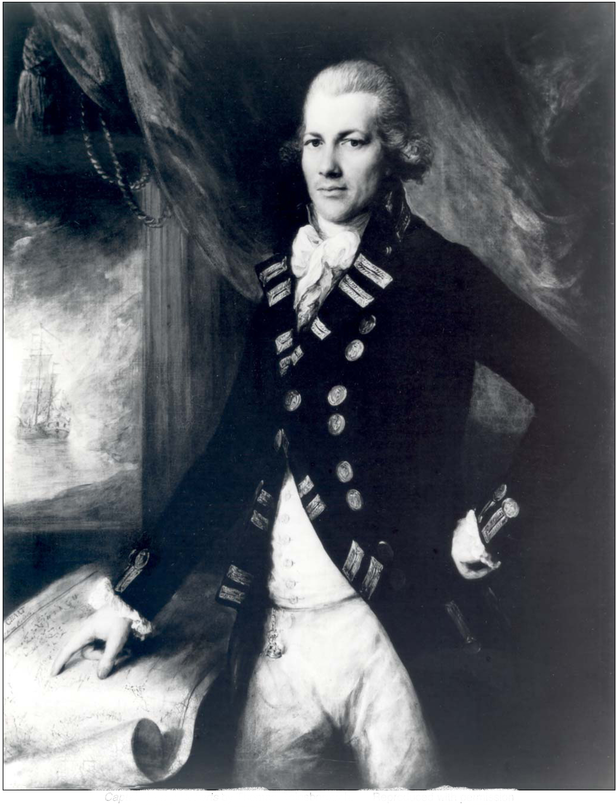 Photograph of a painting of Henry Roberts (Royal Navy officer) by Thomas Gainsborough.